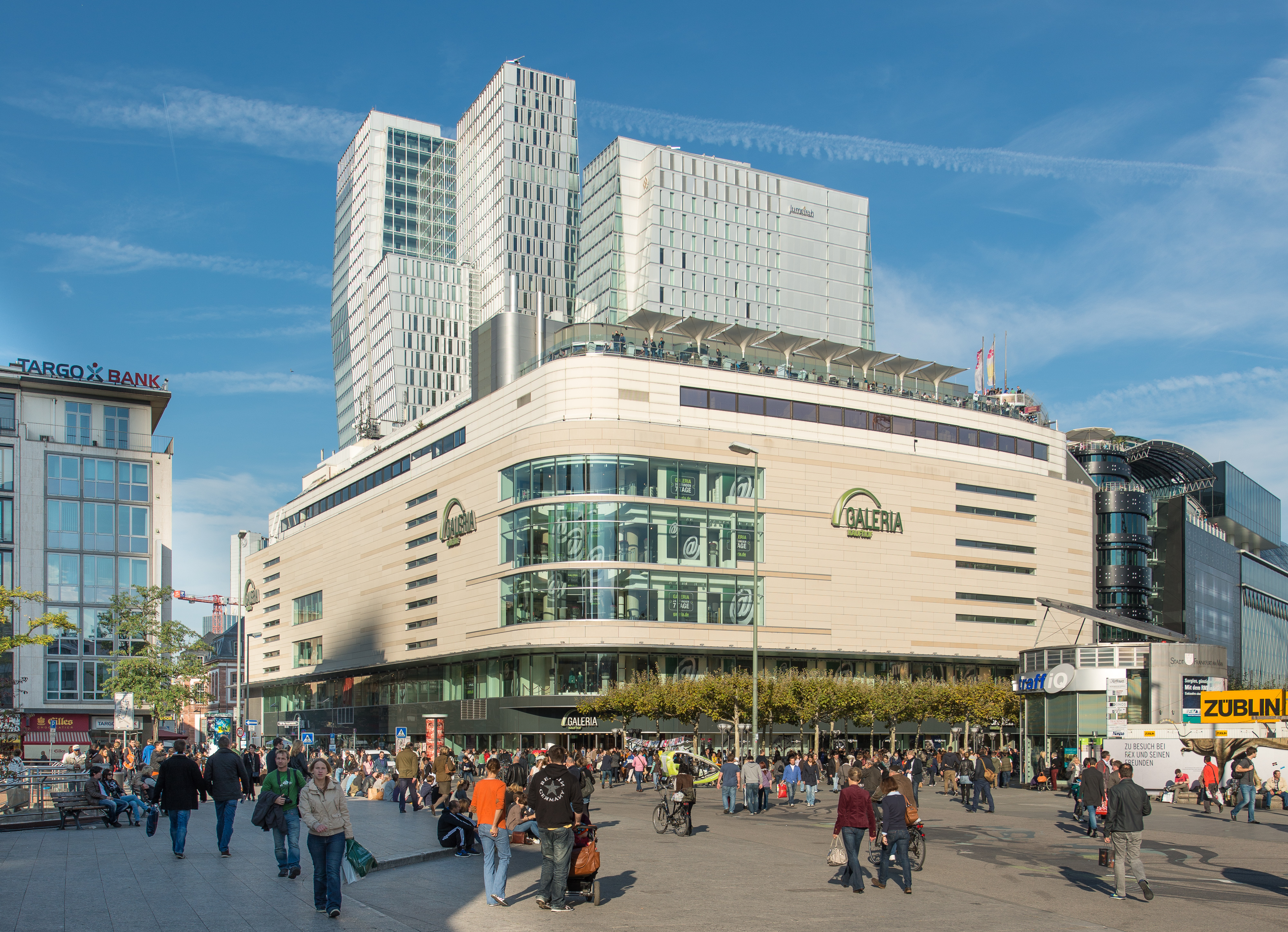 Frankfurt am Main, Hauptwache, Galeria Kaufhof (shopping mall) and Nextower/Jumeirah high-rises in the background.